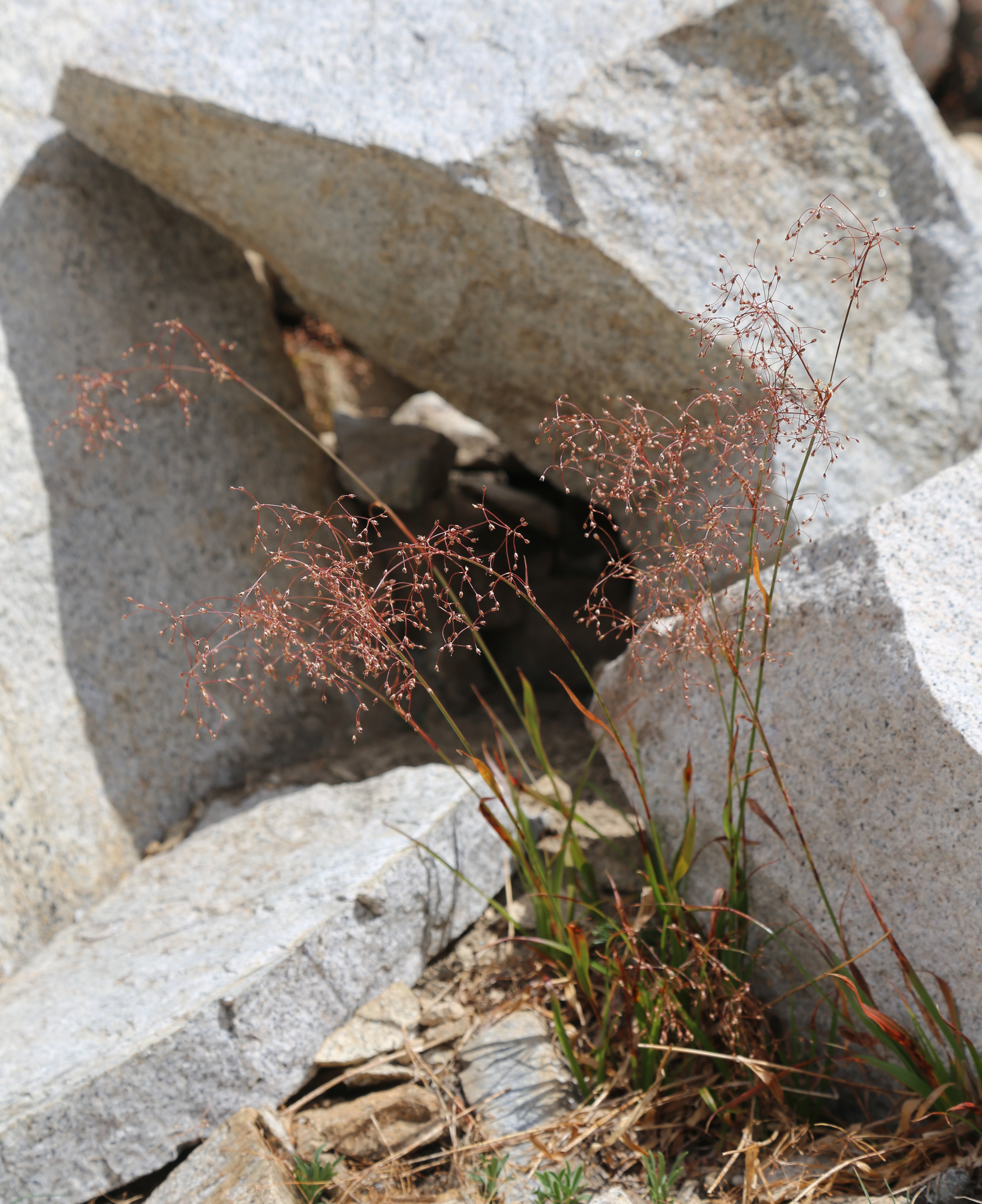 Brewer's reed grass (Calamagrostis brewer) in rocks. Near upper Rock Creek below the Gem Lakes, Little Lakes Valley, John Muir Wilderness, Sierra Navada USA.